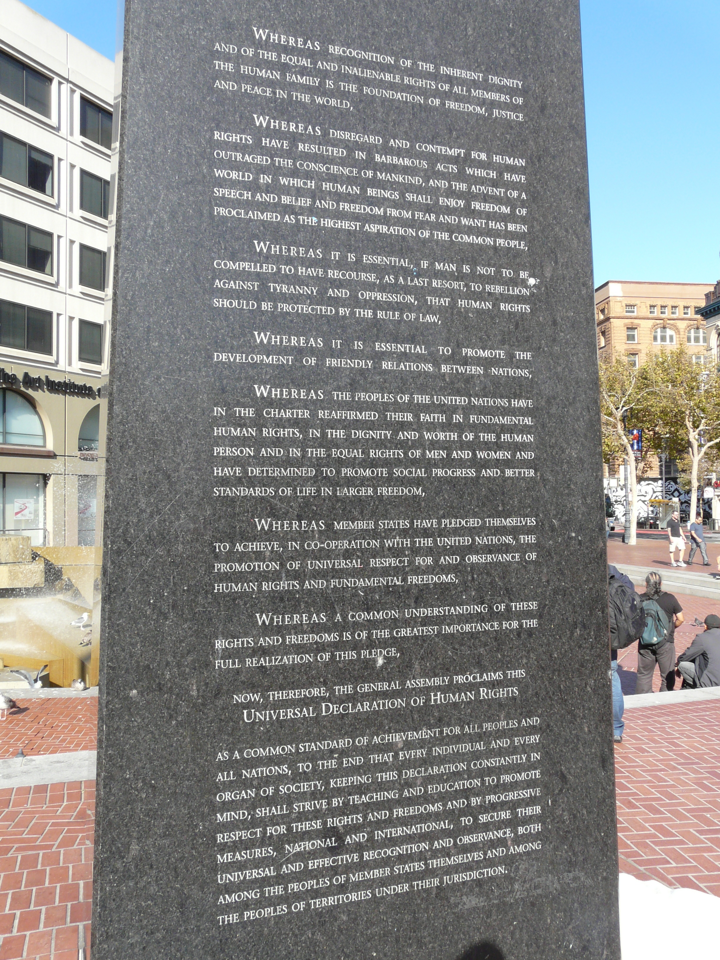 United Nations Plaza; San Francisco Civic Center, San Francisco